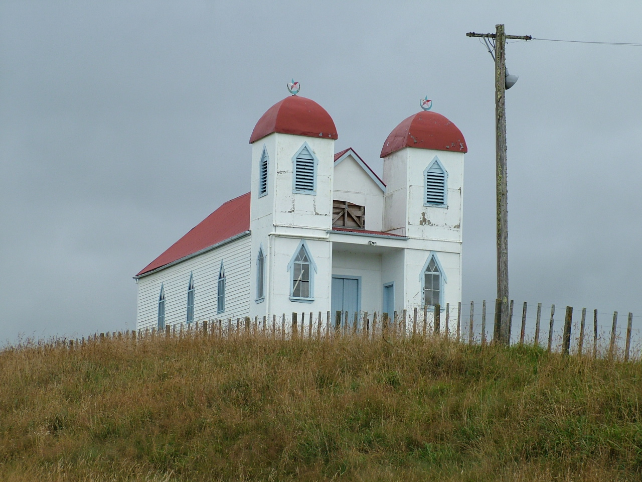 The Ratana Church is one of Raetihi’s most historic places. The twin-towered church is nestled on a hill towering above the main road as you enter Raethi from Ohakune.